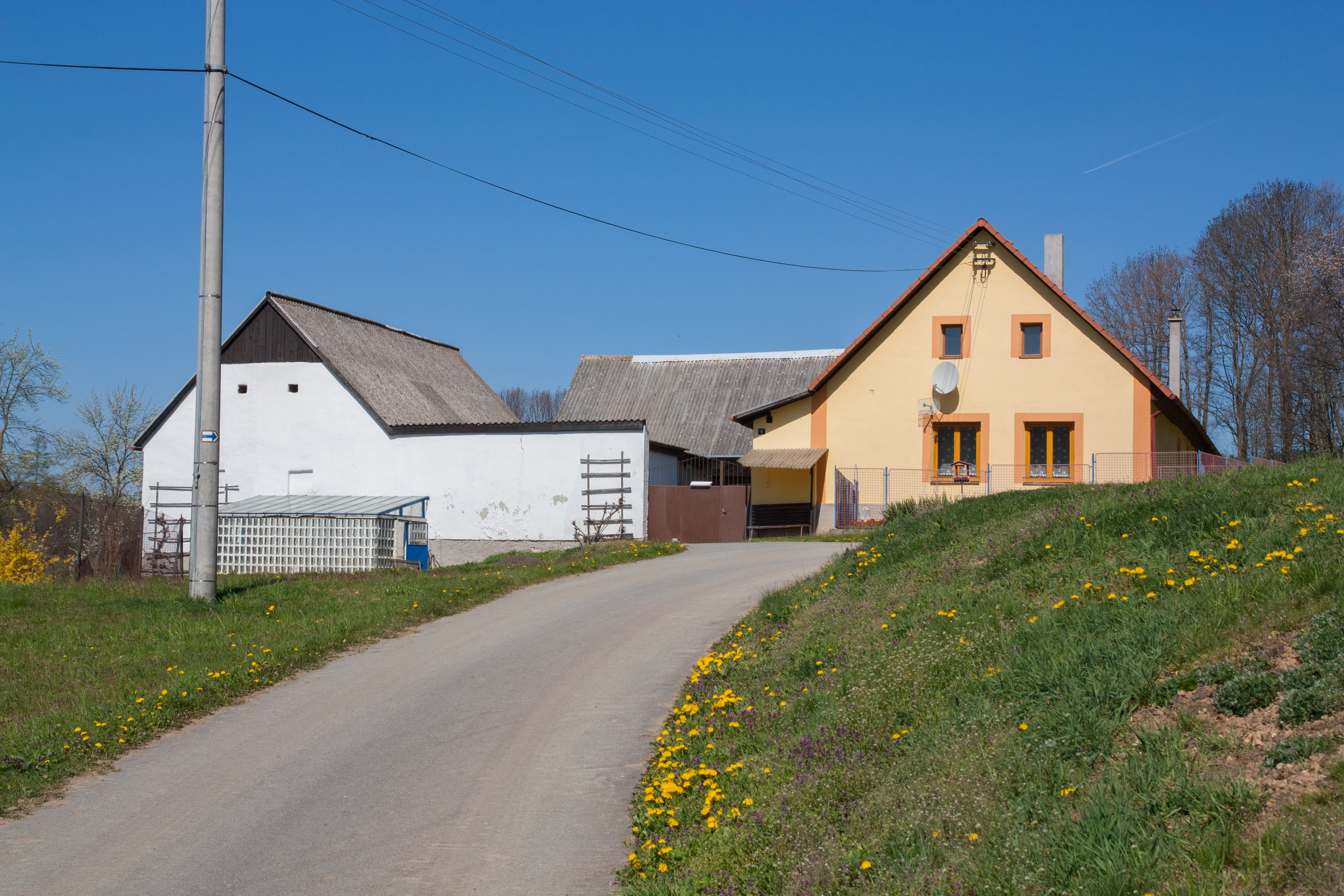 Houses in municipality Pavlov, Tábor District, South Bohemian Region, Czechia